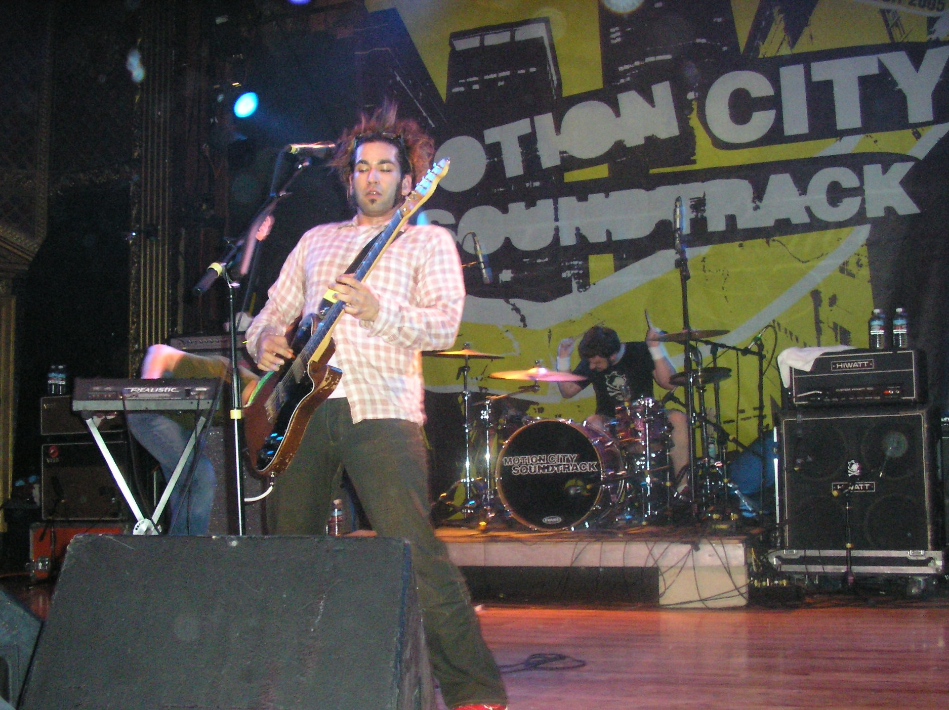 Motion City Soundtrack perform at the Ogden Theatre in Denver, Colorado in February 2005